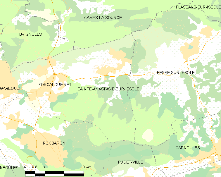 Map of French municipality Sainte-Anastasie-sur-Issole